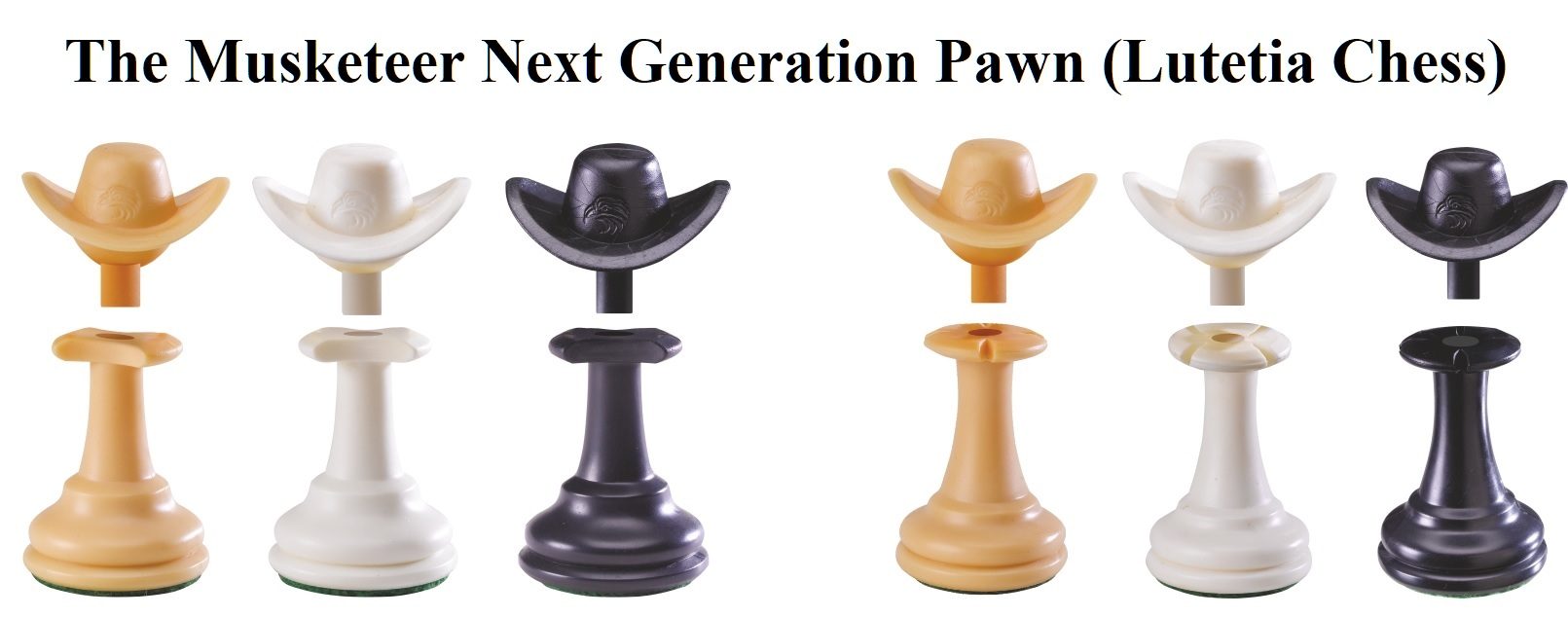 The Musketeer Fairy chess piece